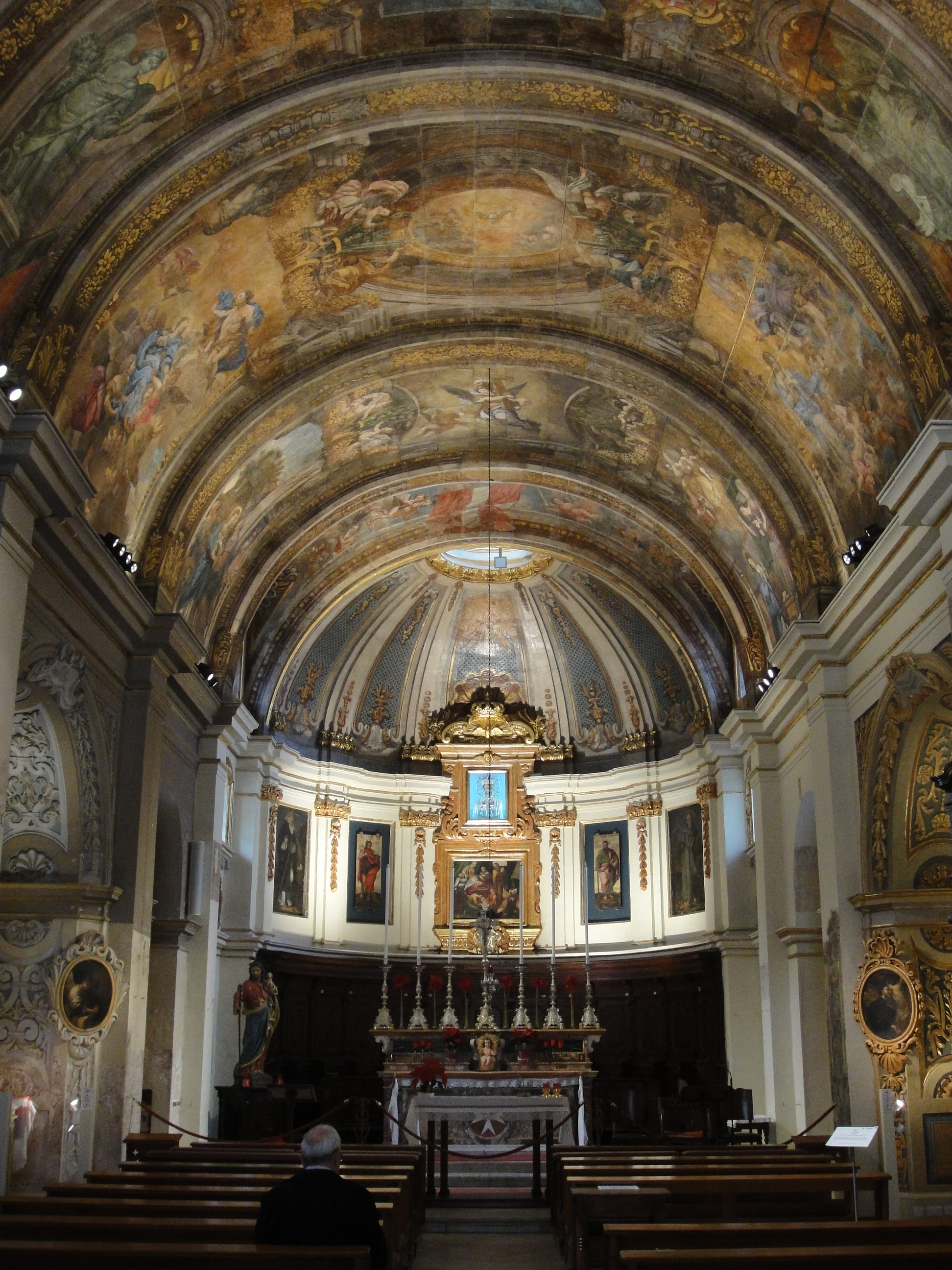 The interior of the church of Our Lady of Victory in Valletta, Malta. the ceiling frescos were uncovered in 2015 after an intense restoration of 11 years.